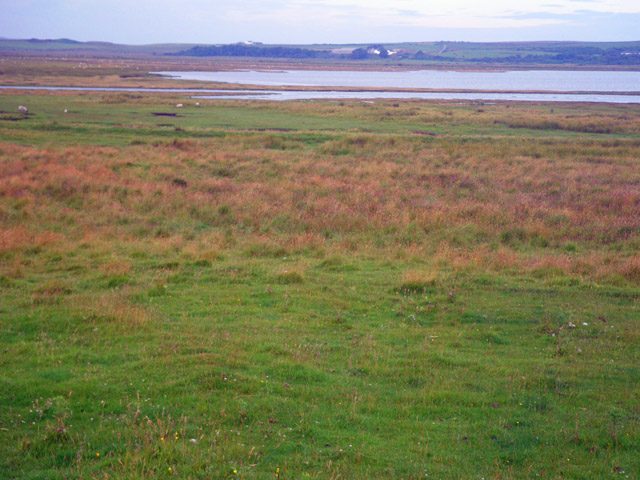 Marshy inflow where Allt a Ghil feeds Loch Gruinart on Islay.